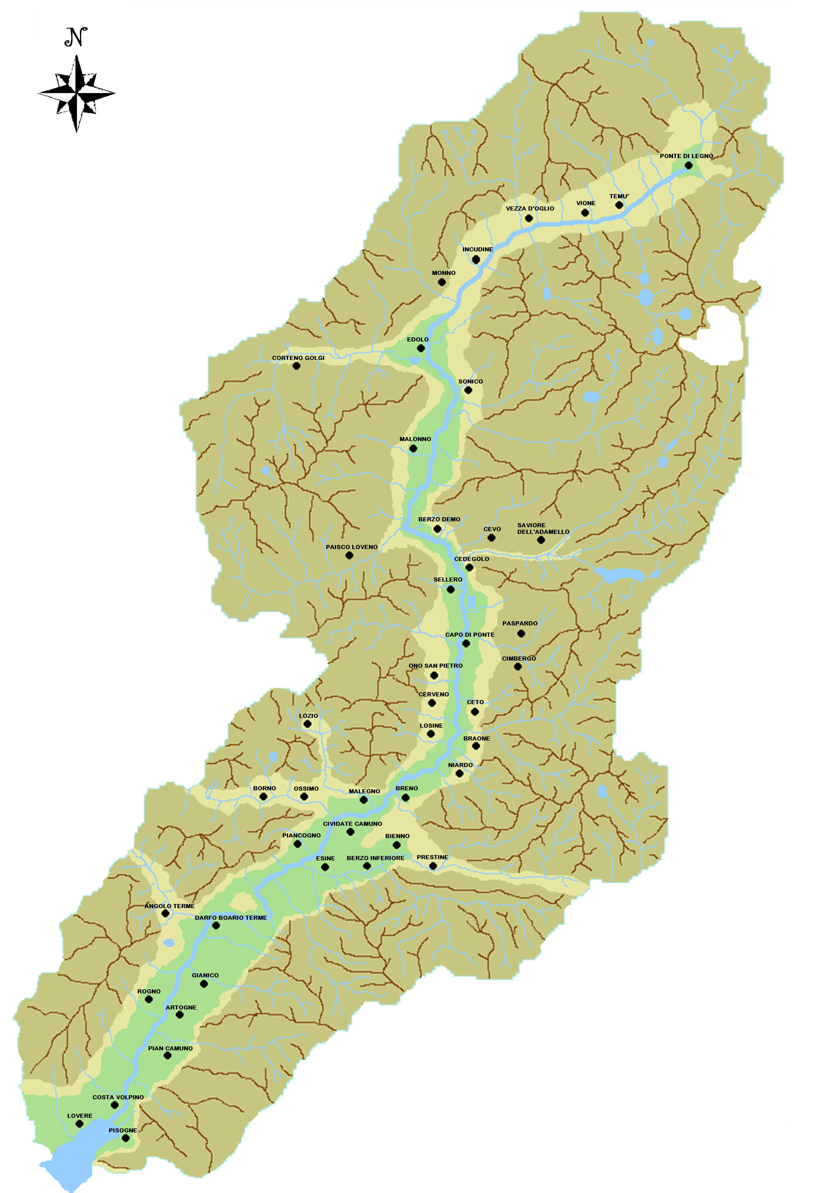 Physical map of Valle Camonica